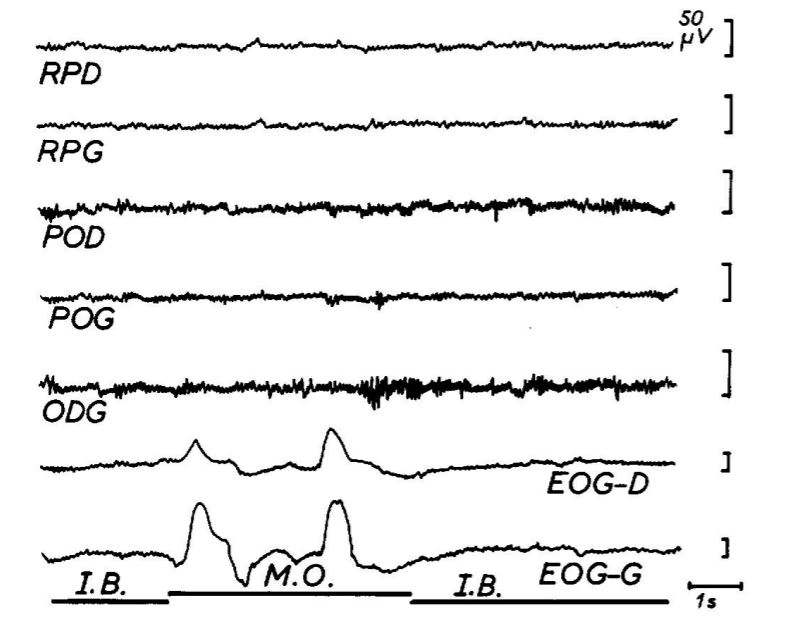 After 10 mg of oral administration of Delta-9 tétra-hydro-cannabinol (T.H.C.), Pierre Etevenon has observed by EEG rapid shifts of paradoxical sleep with rapid eye movements (M.O.) between two periods of deep sedation (IB), over five EEG channels : rignt and left rolando-parietal (RPD, RPG), right and left parieto-occipital (POD, POG) and right-left ocipital (ODG), together with right and left electroretinograms.